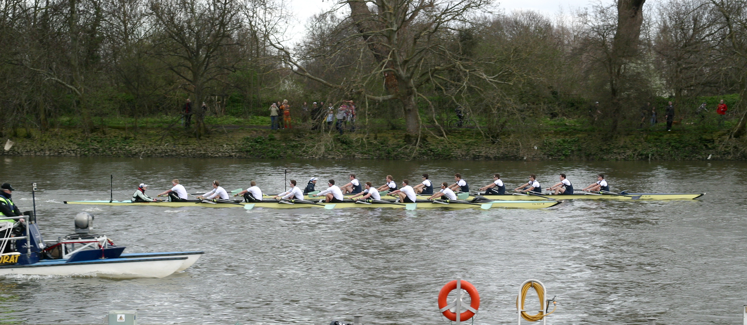 Cambridge VIII begin to overtake Oxford at Chiswick Pier in the 2010 Boat Race